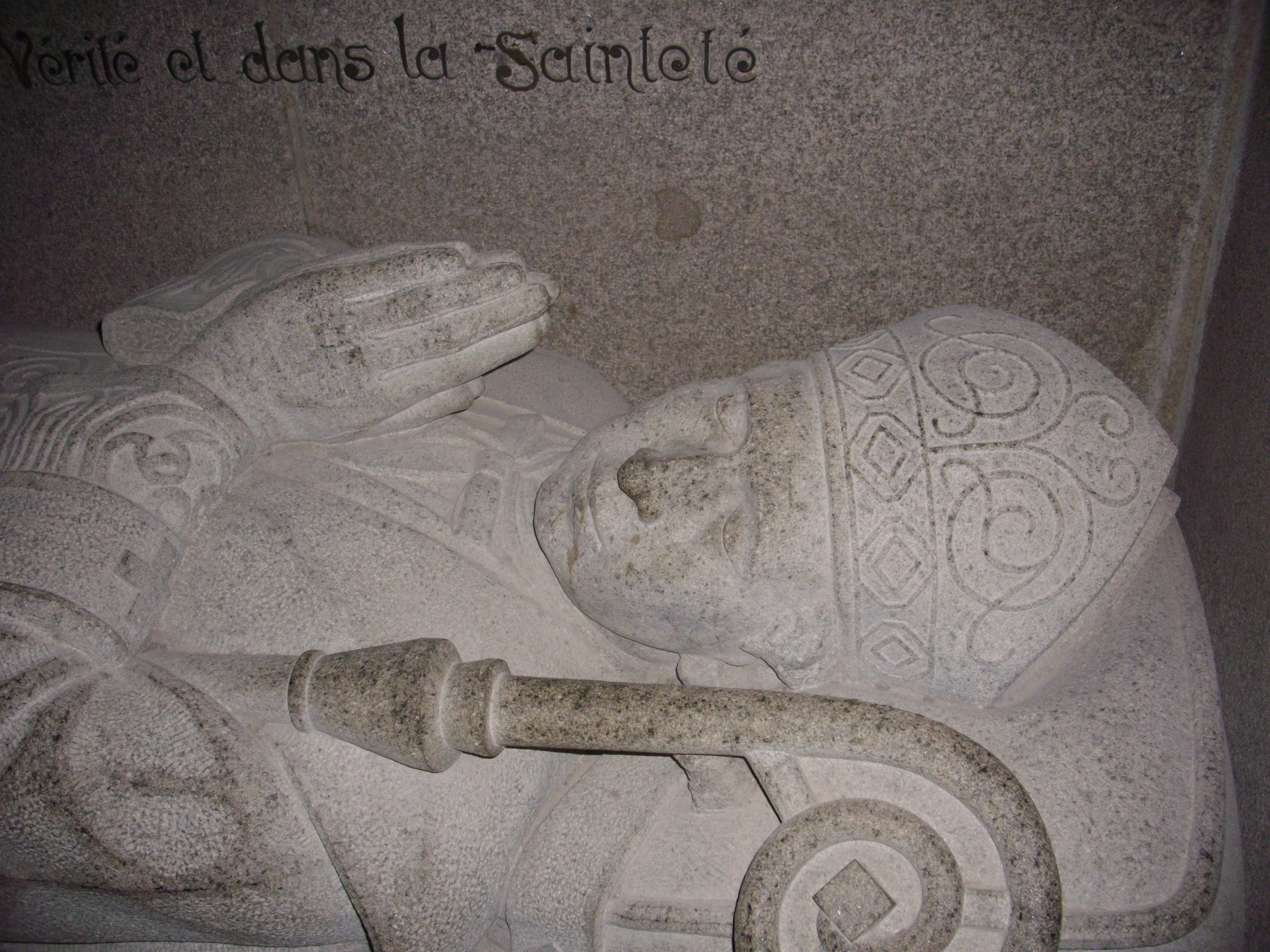 Saint Peter cathedral of Vannes (Morbihan, France) : effigy of Hippolyte Tréhiou, bishop of Vannes (Jules-Charles Le Bozec, 1942)